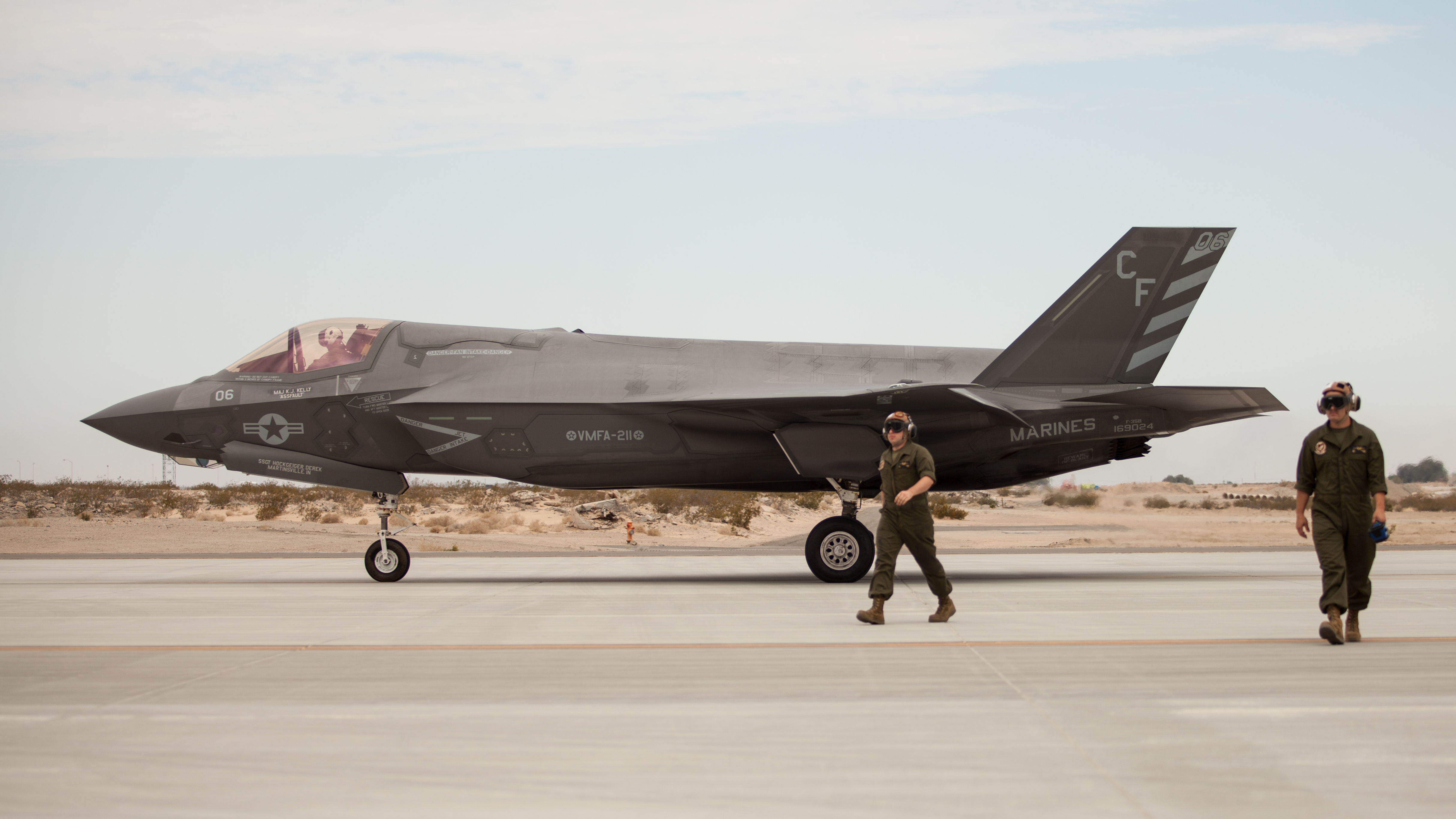 U.S. Marine Corps F-35B Lightning II with Marine Fighter Attack Squadron 211 (VMFA-211) performs it’s first flight at Marine Corps Air Station Yuma, Ariz., June 29, 2016. Unit: Marine Corps Air Station Yuma Combat Camera